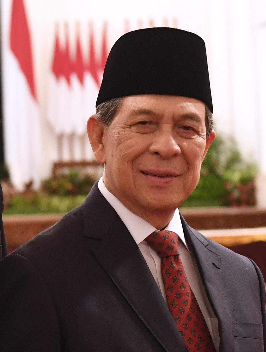 Indonesian Ambassador to Philipin Sinyo Harry Sarundajang